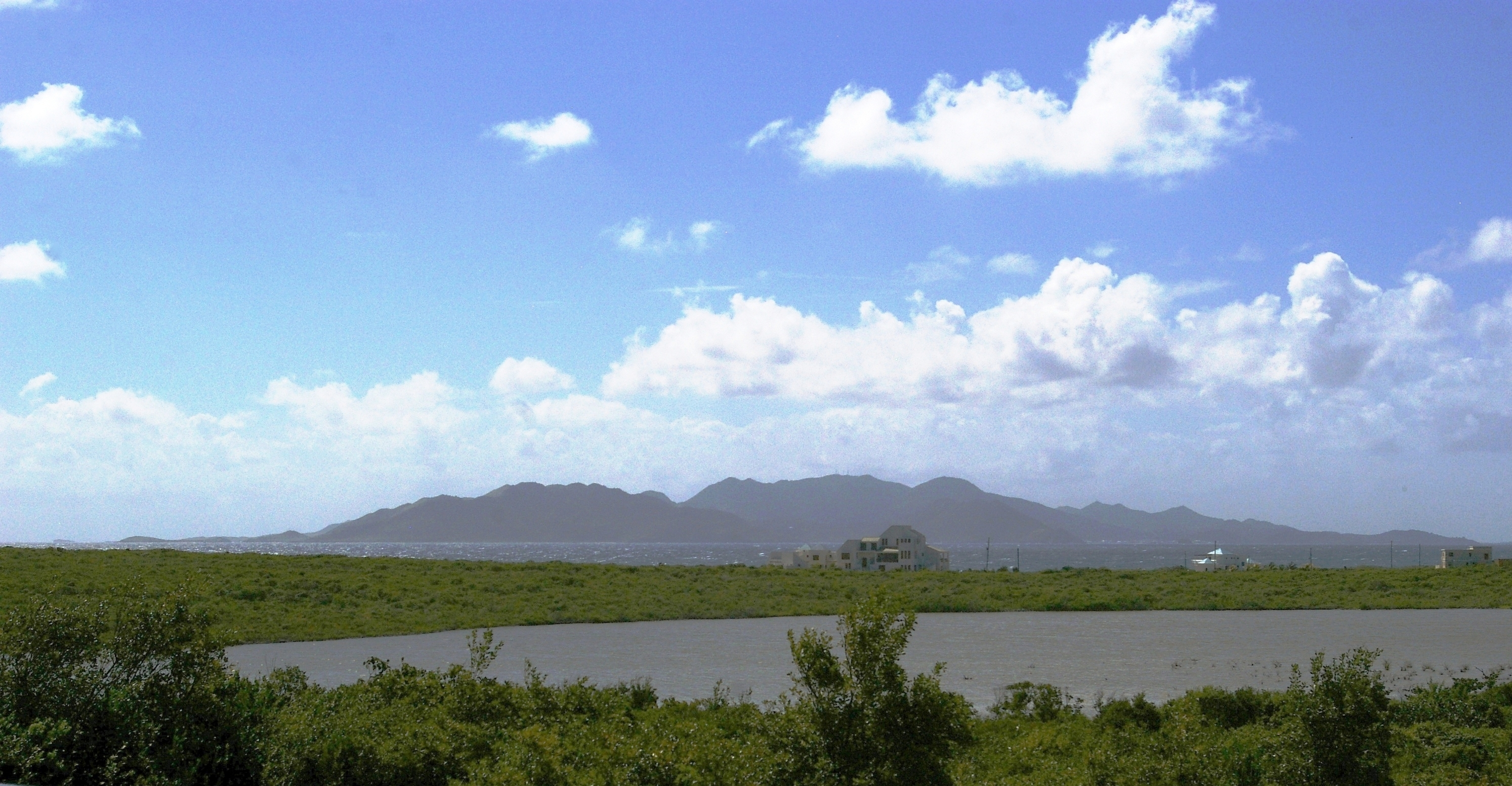 Silhouette of the Caribbean island Saint Martin seen from Anguilla island (UK)